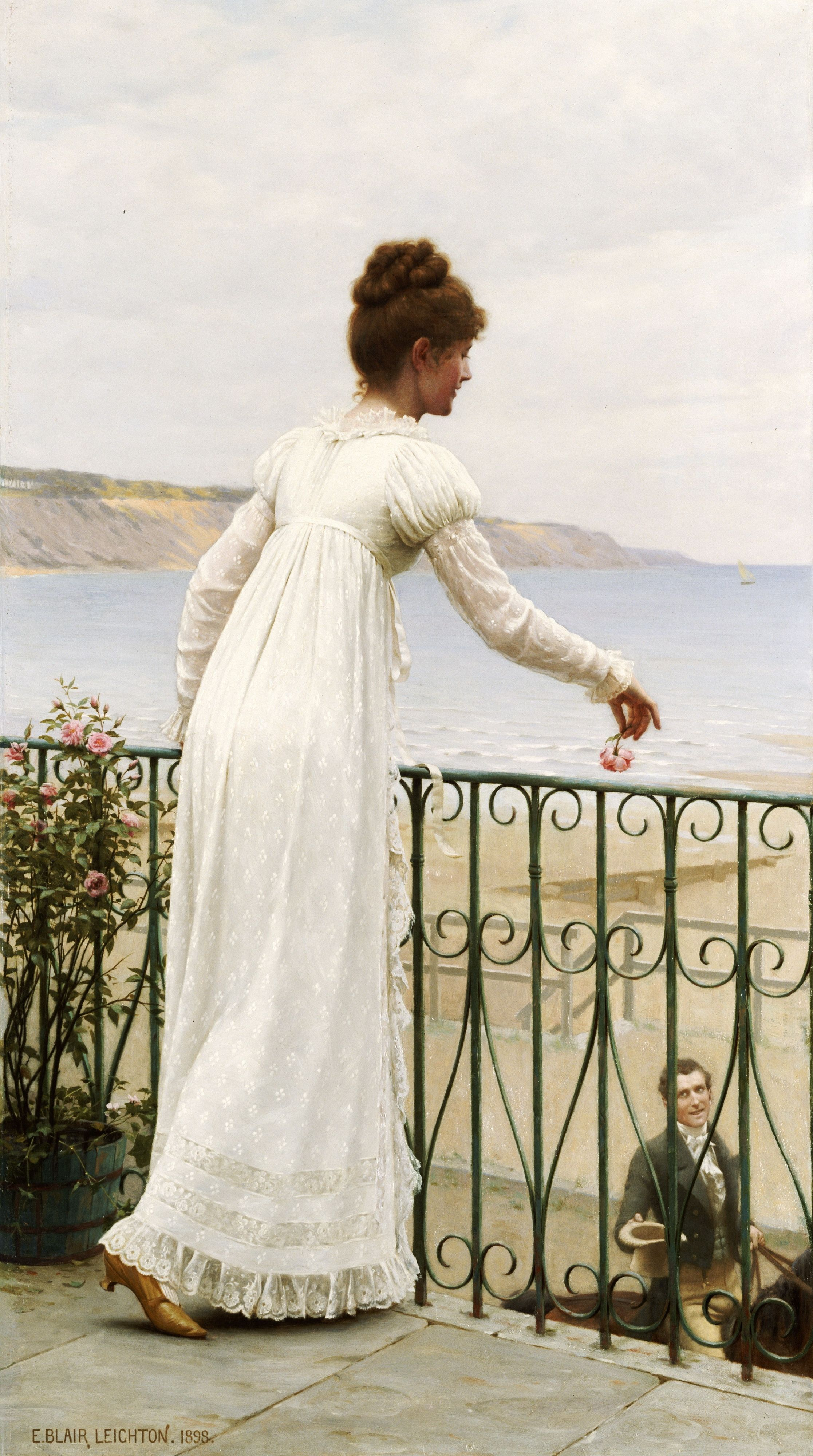 Genre painting of English Regency scene; shows the woman wearing high heels, though women's shoes generally had flat heels during the period which this painting depicts.